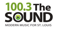 Logo for 100.3 The Sound (WSDD) from St. Louis, MO